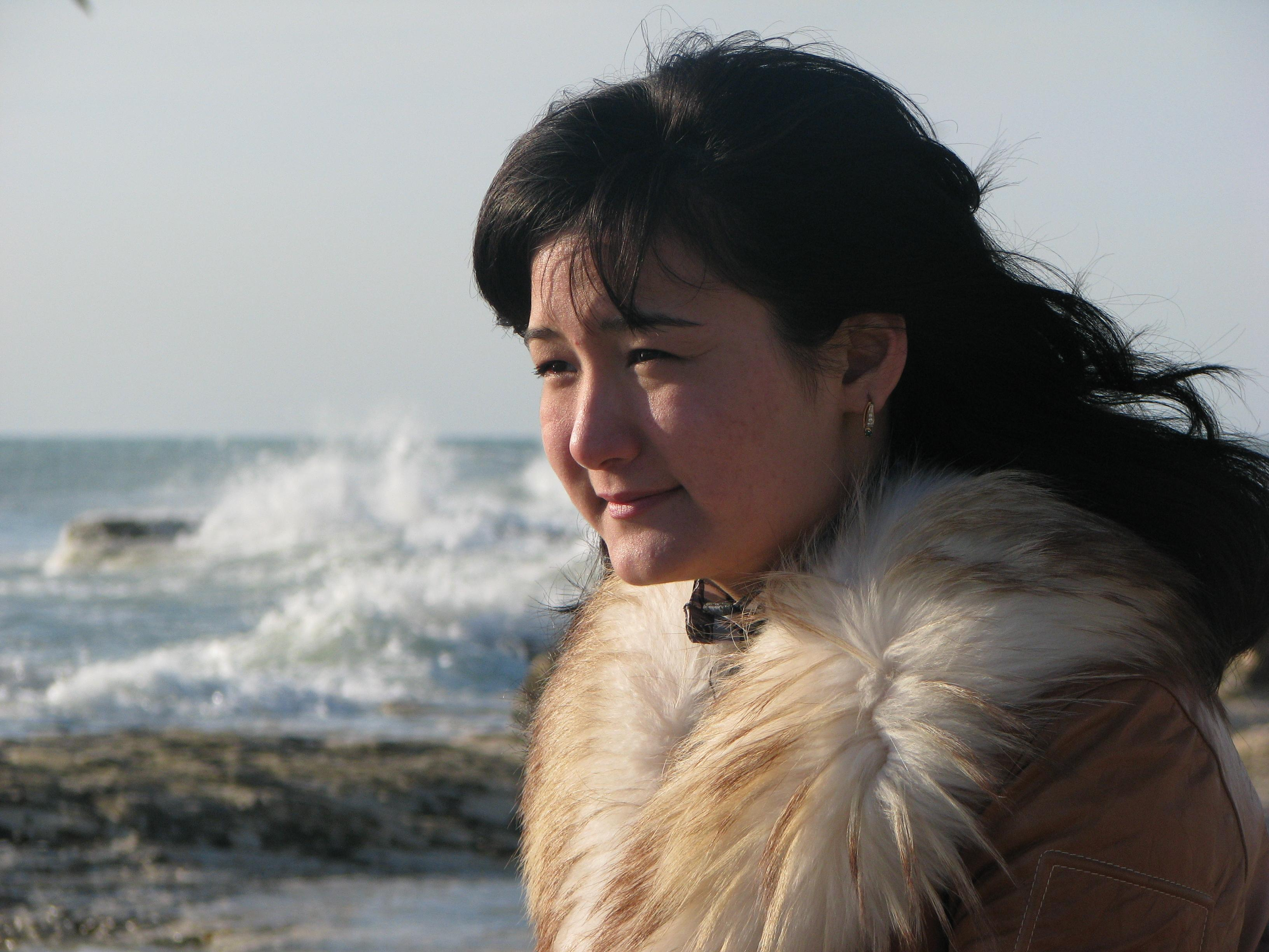 Kazakh woman at the Caspian Sea